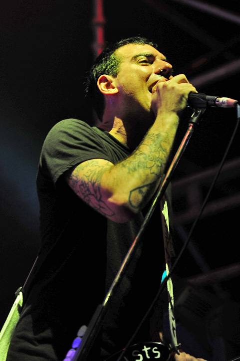 Soundwave Festival 2010